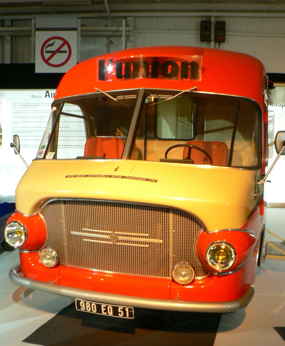 Renault Galion at the 2006 Paris Motor Show